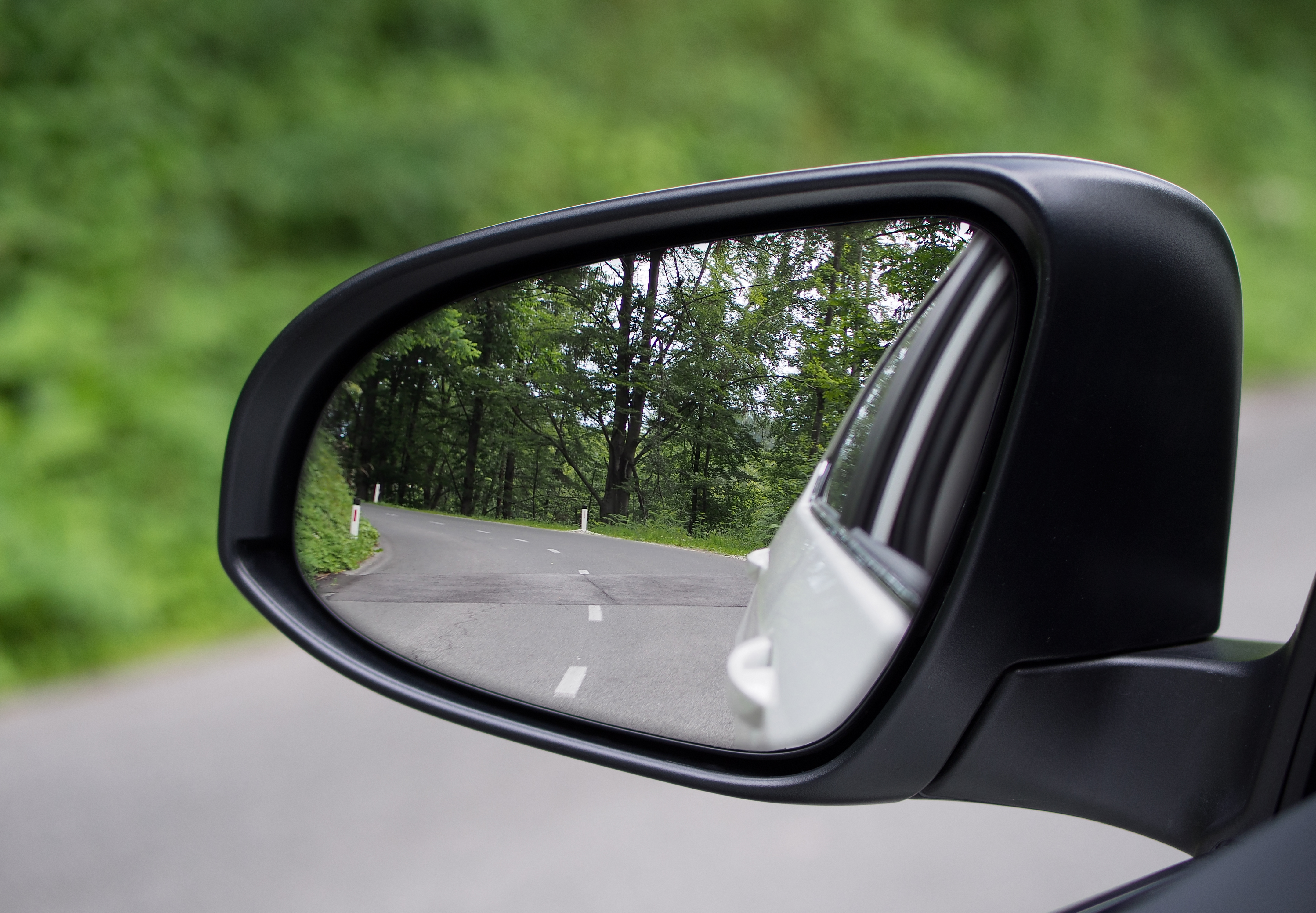 Left wing mirror on a car.